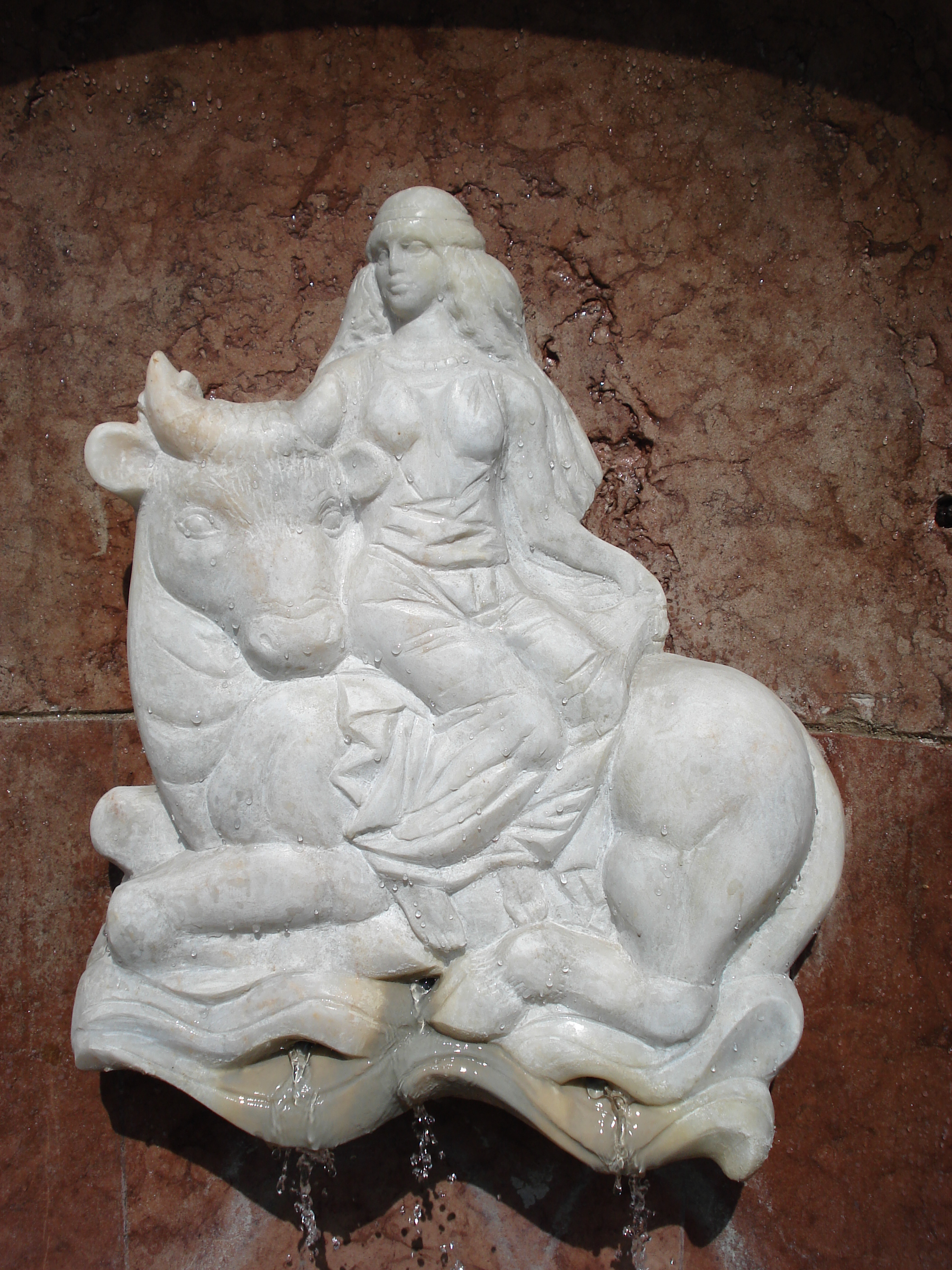 Fountain statue.